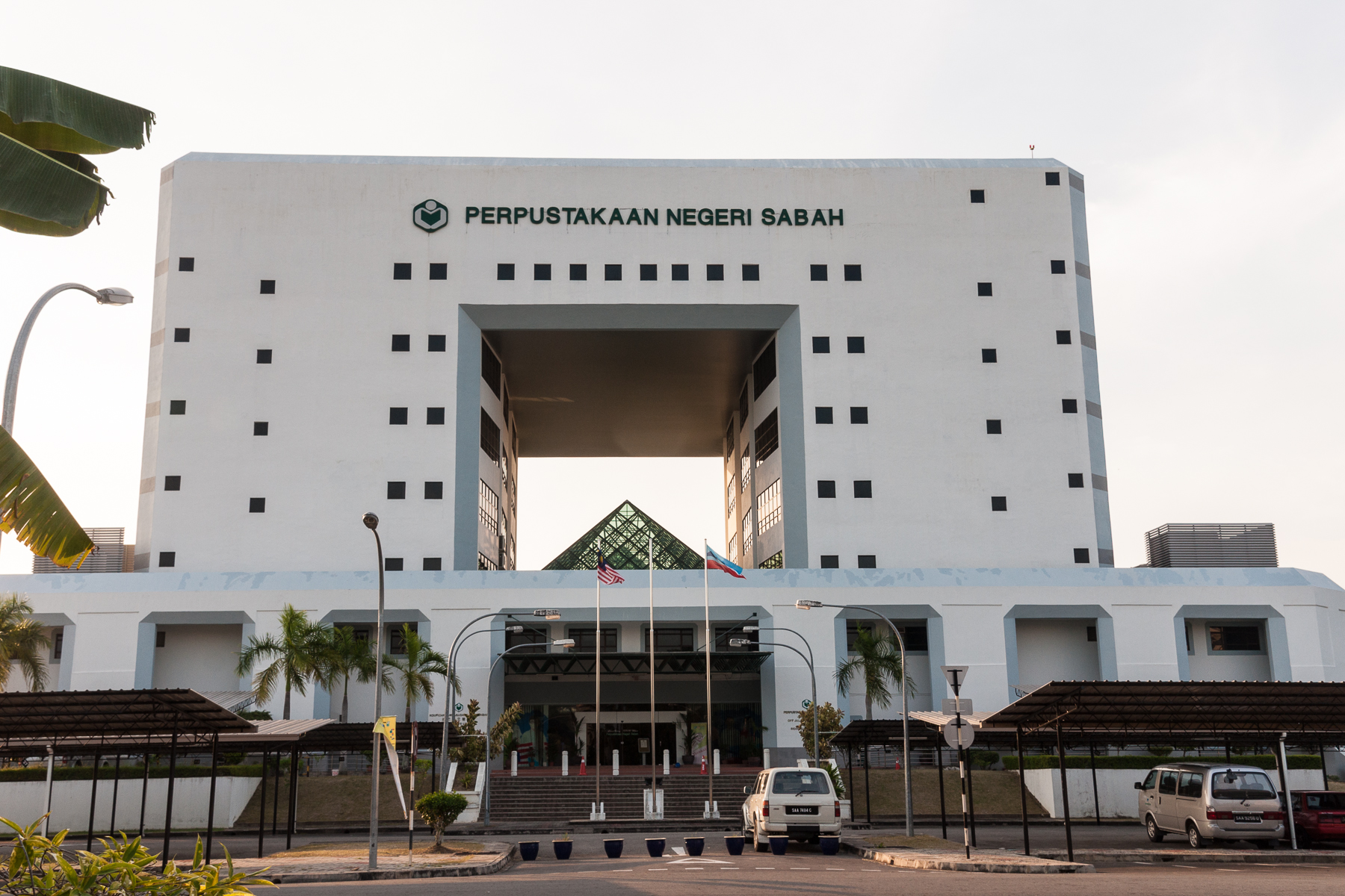 Kota Kinabalu, Sabah: Sabah State Library (Perpustakaan Negeri Sabah)